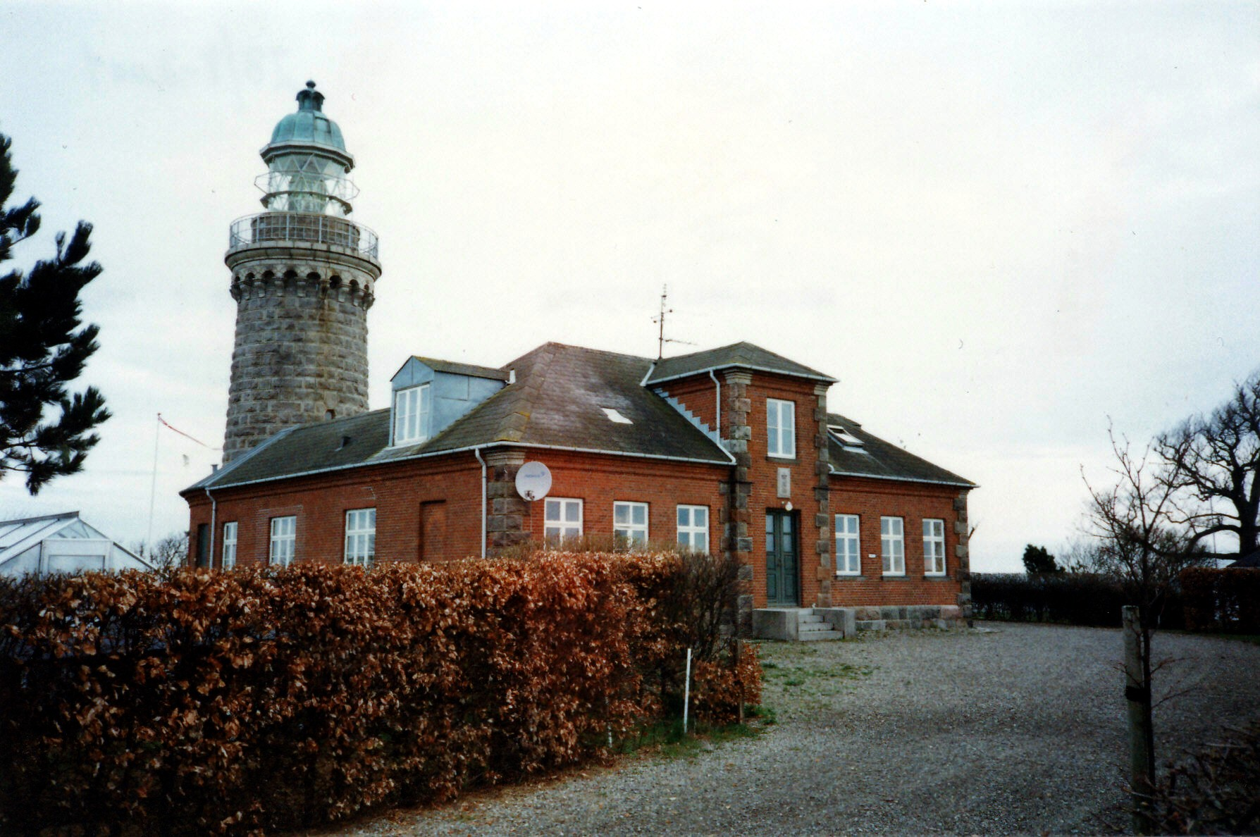 Skjoldnæs Fyr, a lighthouse on the Danish island Ærø